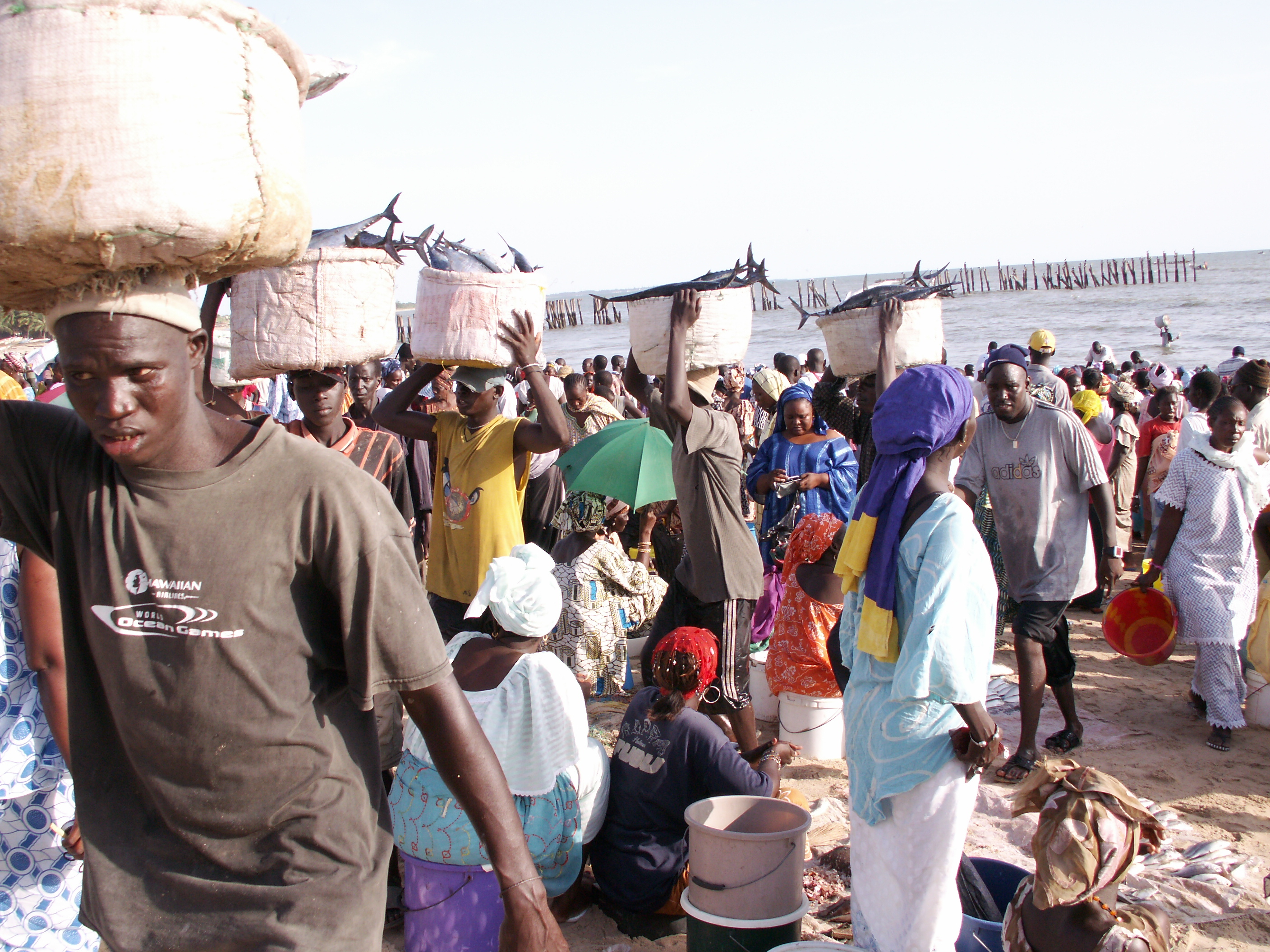 At the port of M'bour (Senegal), people are getting the fish from the boats. The transportation of the fish is done by packets as seen on the picture or by horse charrets.